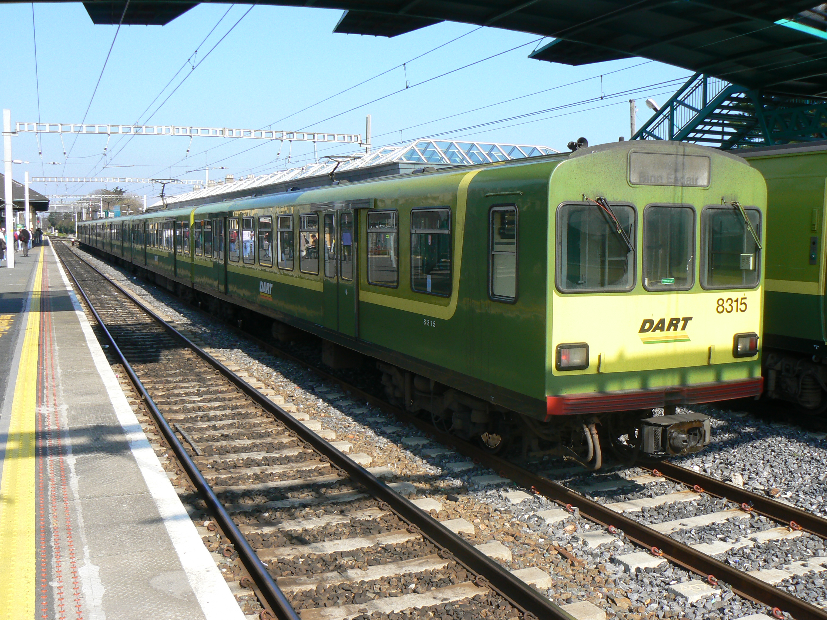 IÉ 8100 Class train at Bray, Co. Wicklow, Ireland. Photo by Skvattram 2007-03-24.